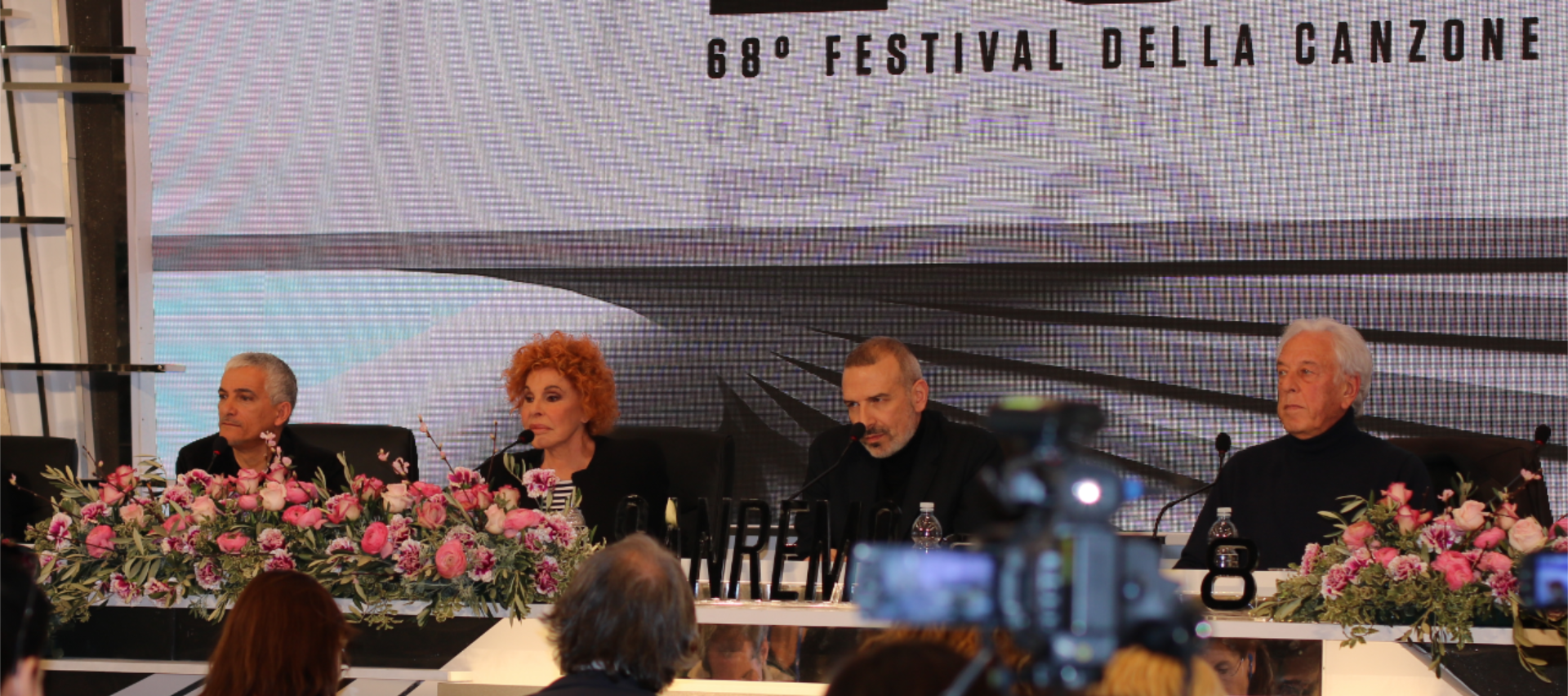 Ornella Vanoni